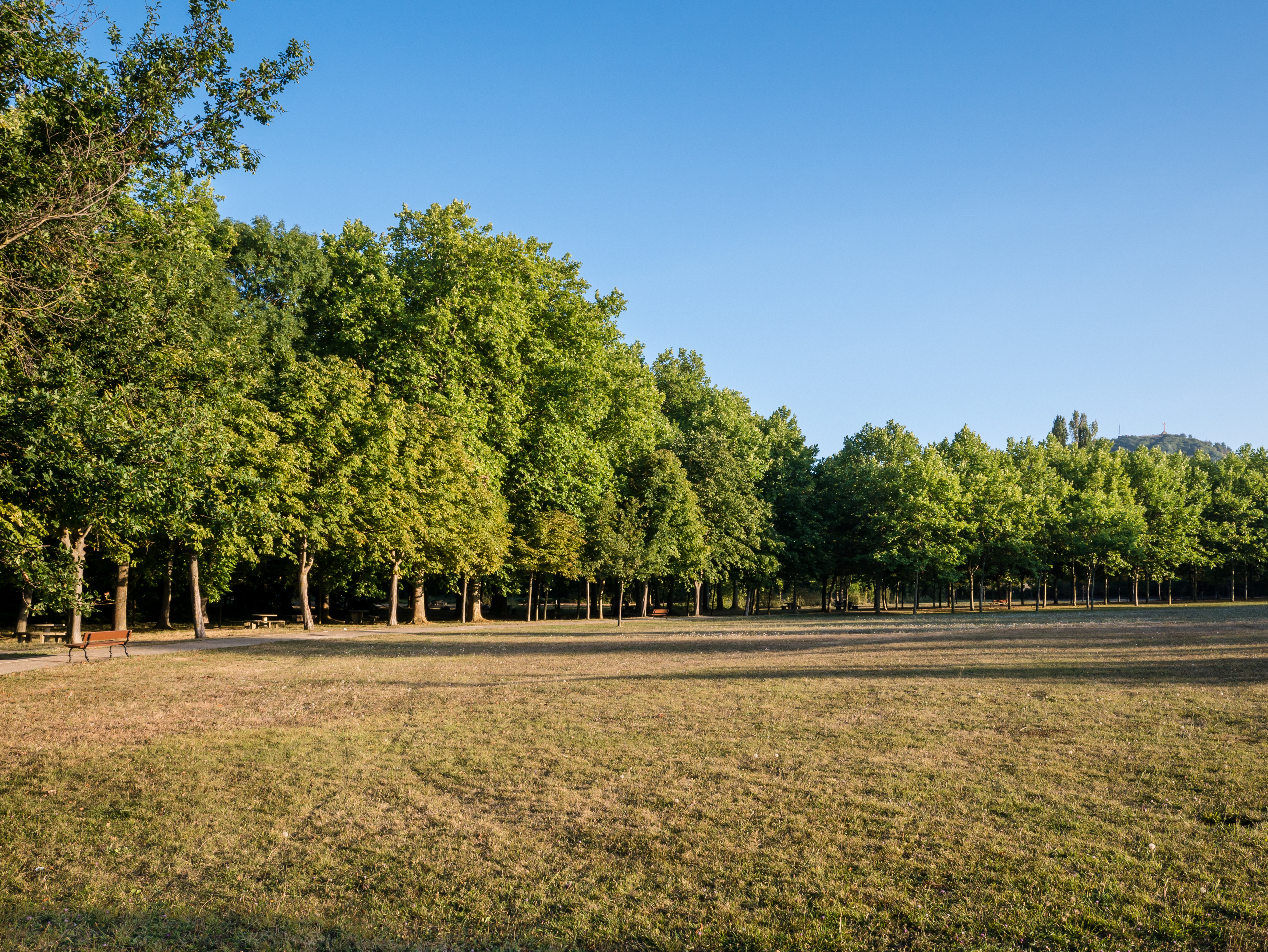 Meadows of Olarizu Park. Vitoria-Gasteiz, Basque Country, Spain